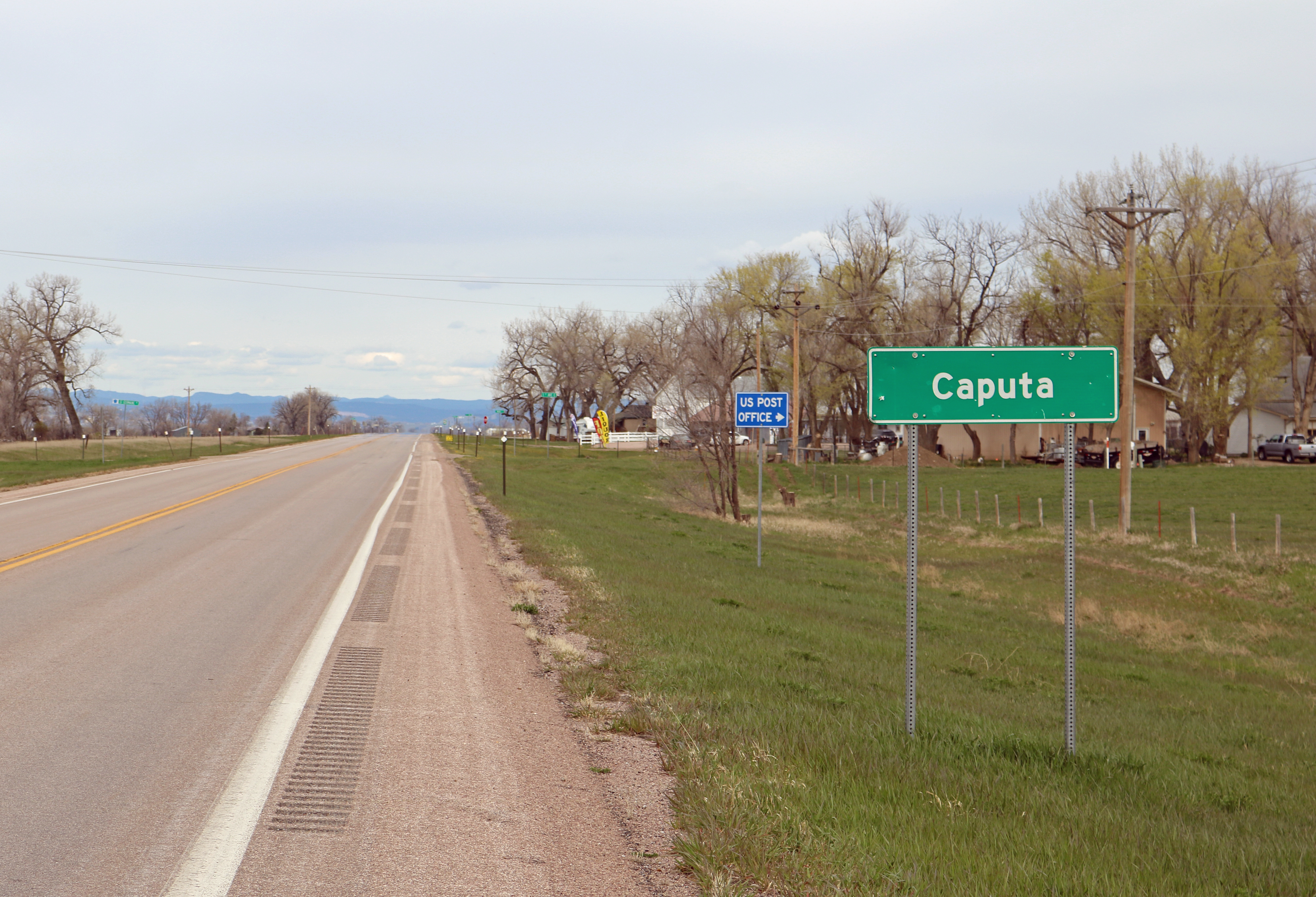 A view of Caputa, South Dakota, looking north